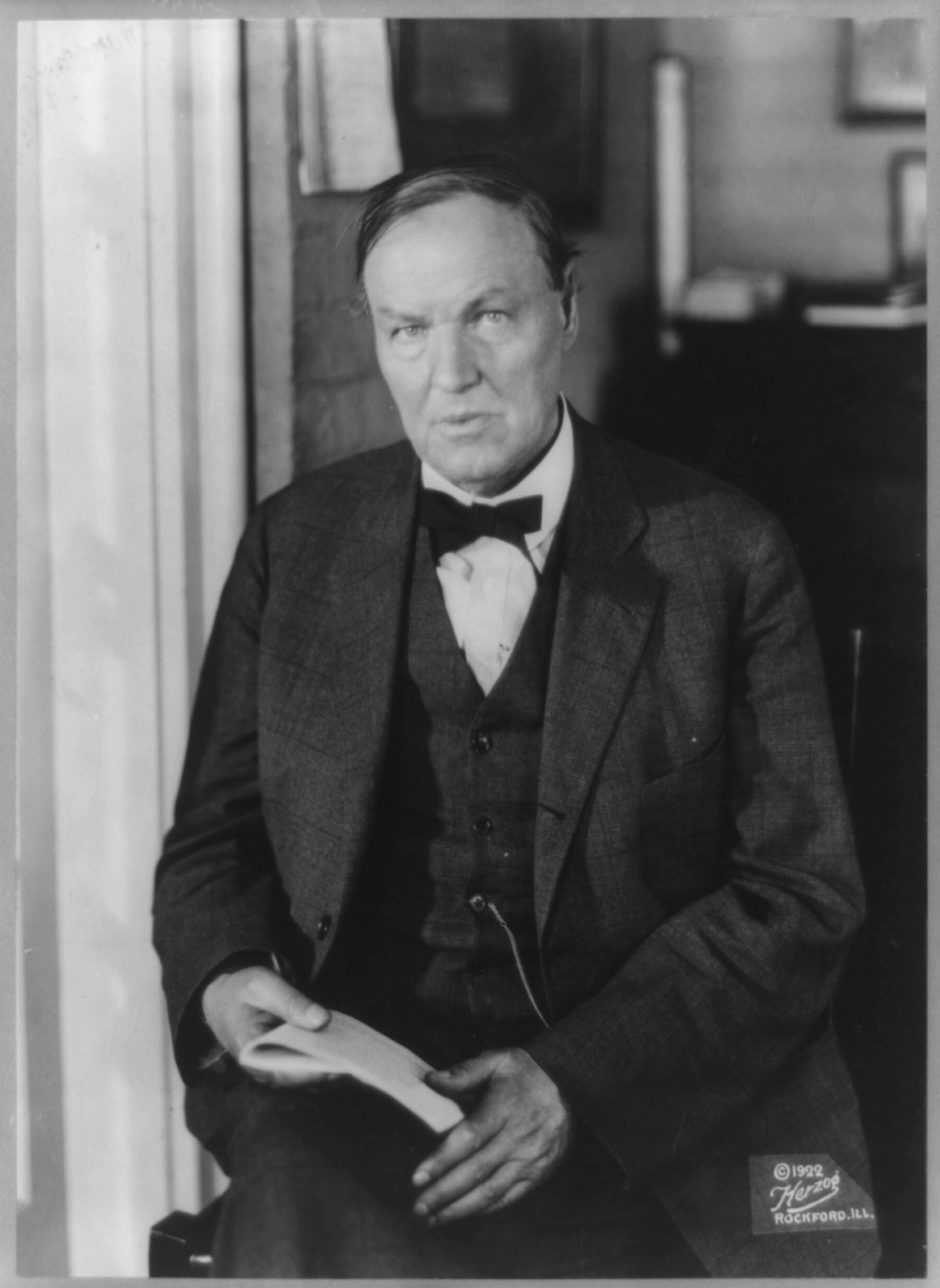 Clarence Darrow, 1857-1938. Portrait, half length, seated, facing left.